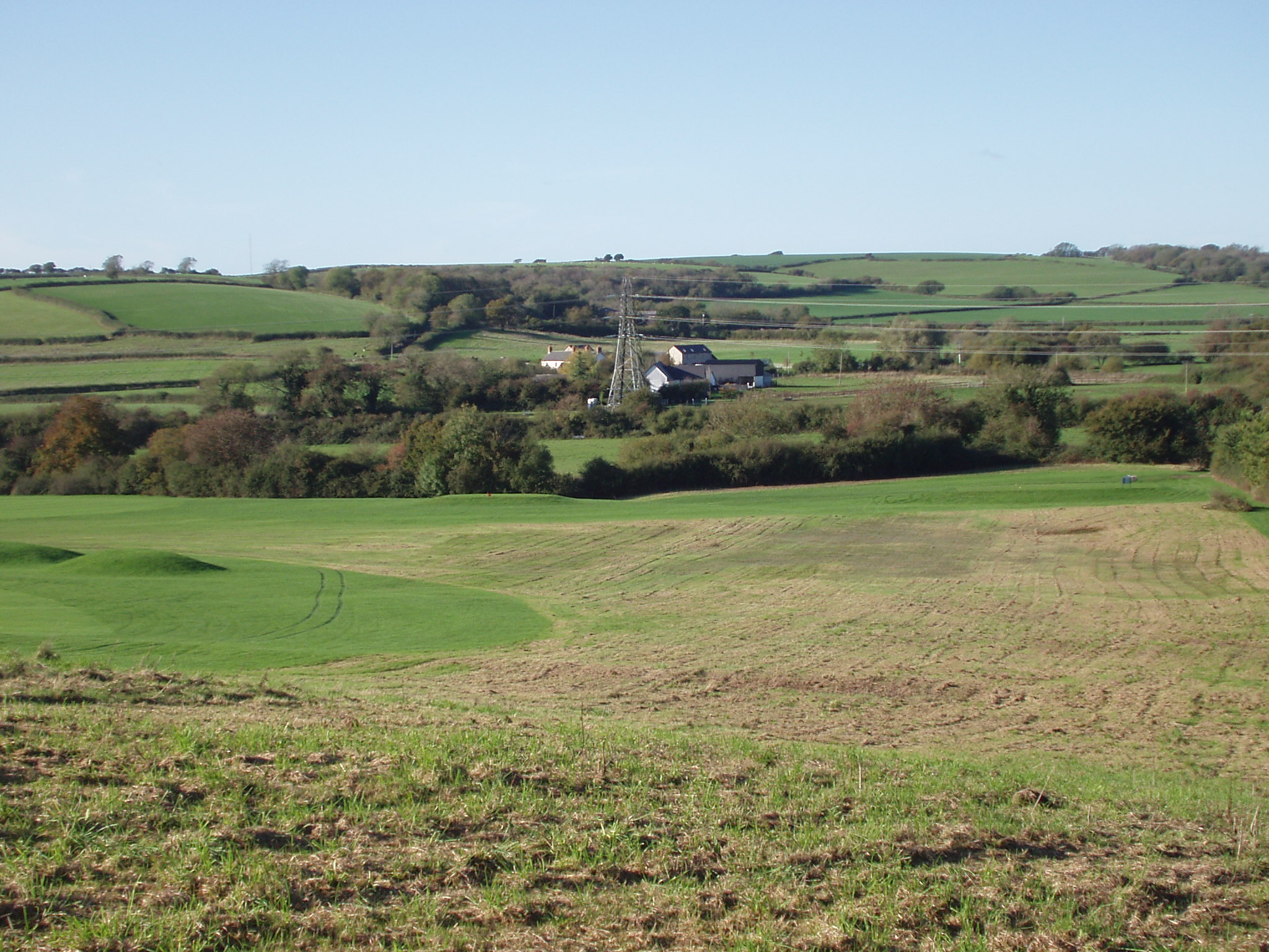 Looking across the Vale of Glamorgan on Brynhill Golf Course, Hihglight Barry, Vale of Glamorgan, South Wales.